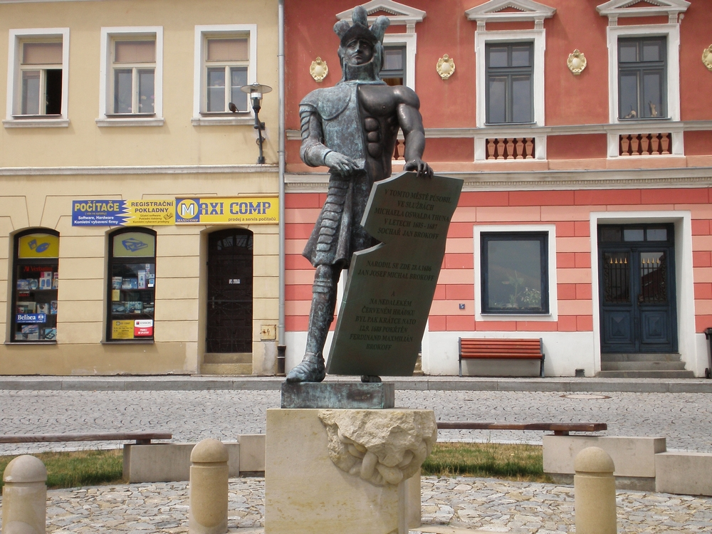 Klášterec nad Ohří, Brokoff Memorial